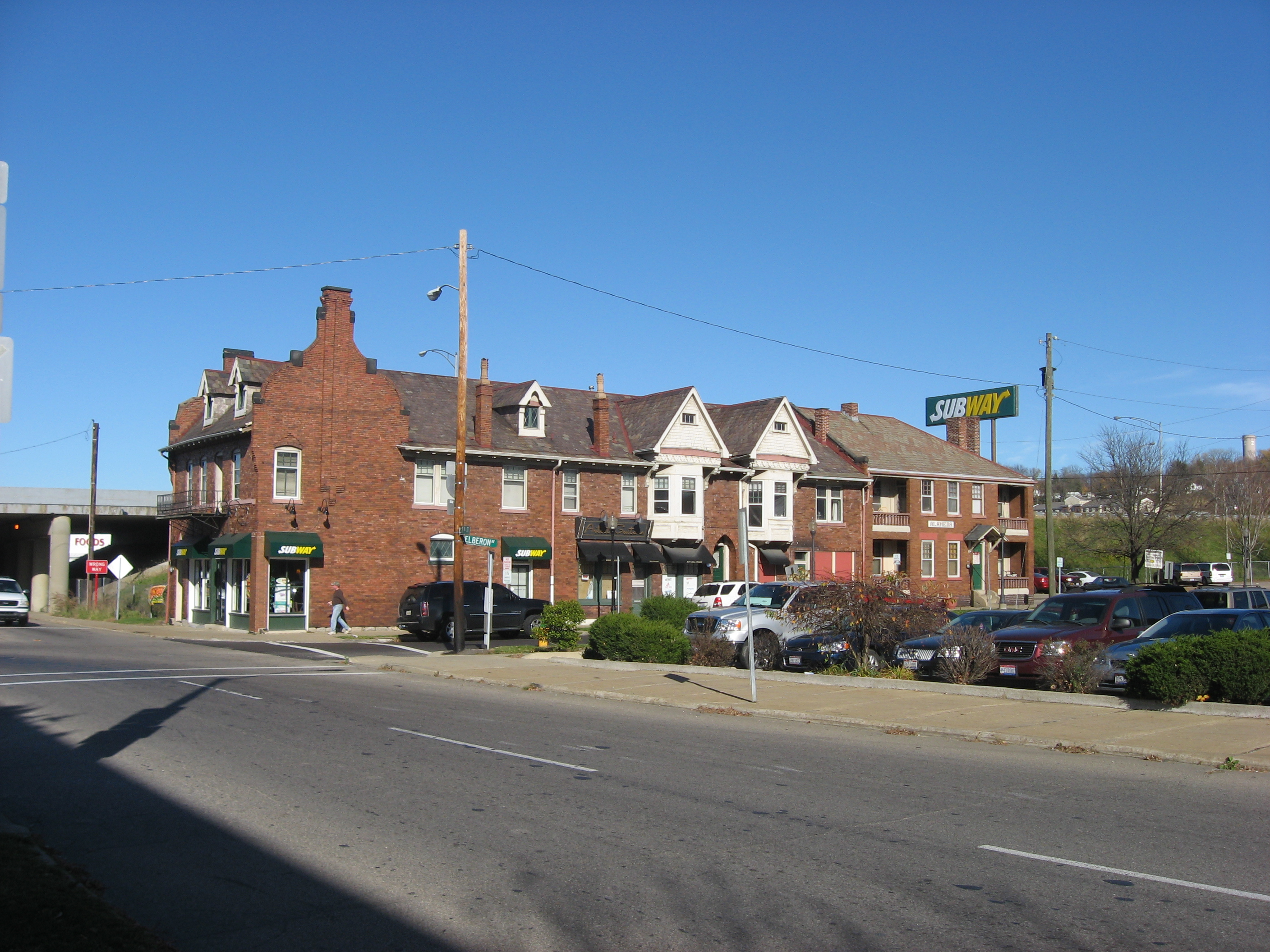 Front of the Alameda Apartments, located in the 300 block of N. Seventh Street in Zanesville, Ohio, United States. Built in 1910, it is listed on the National Register of Historic Places. The rear of the building faces Interstate 70, which can be seen behind it on both sides.